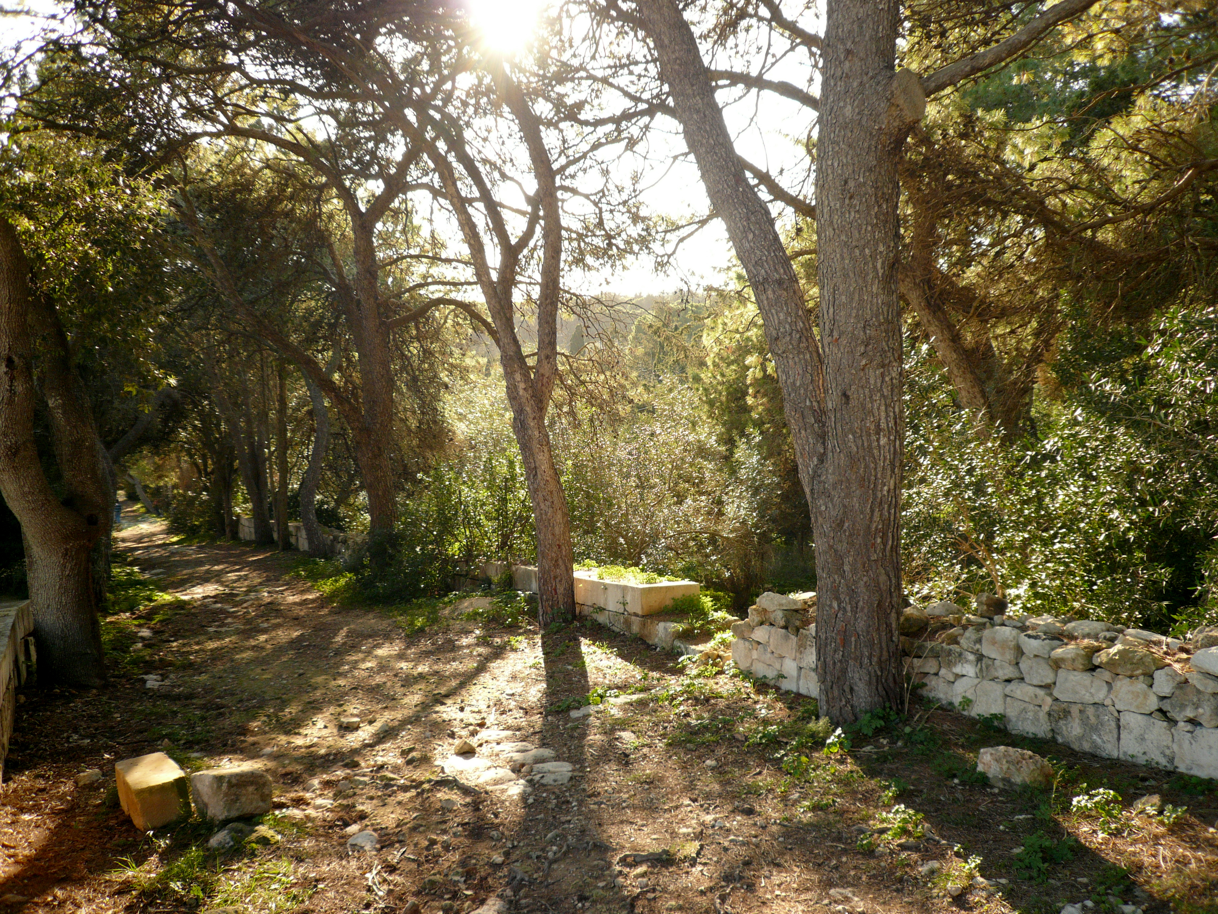 Buskett Gardens, the most important (though still small) forest on Malta.